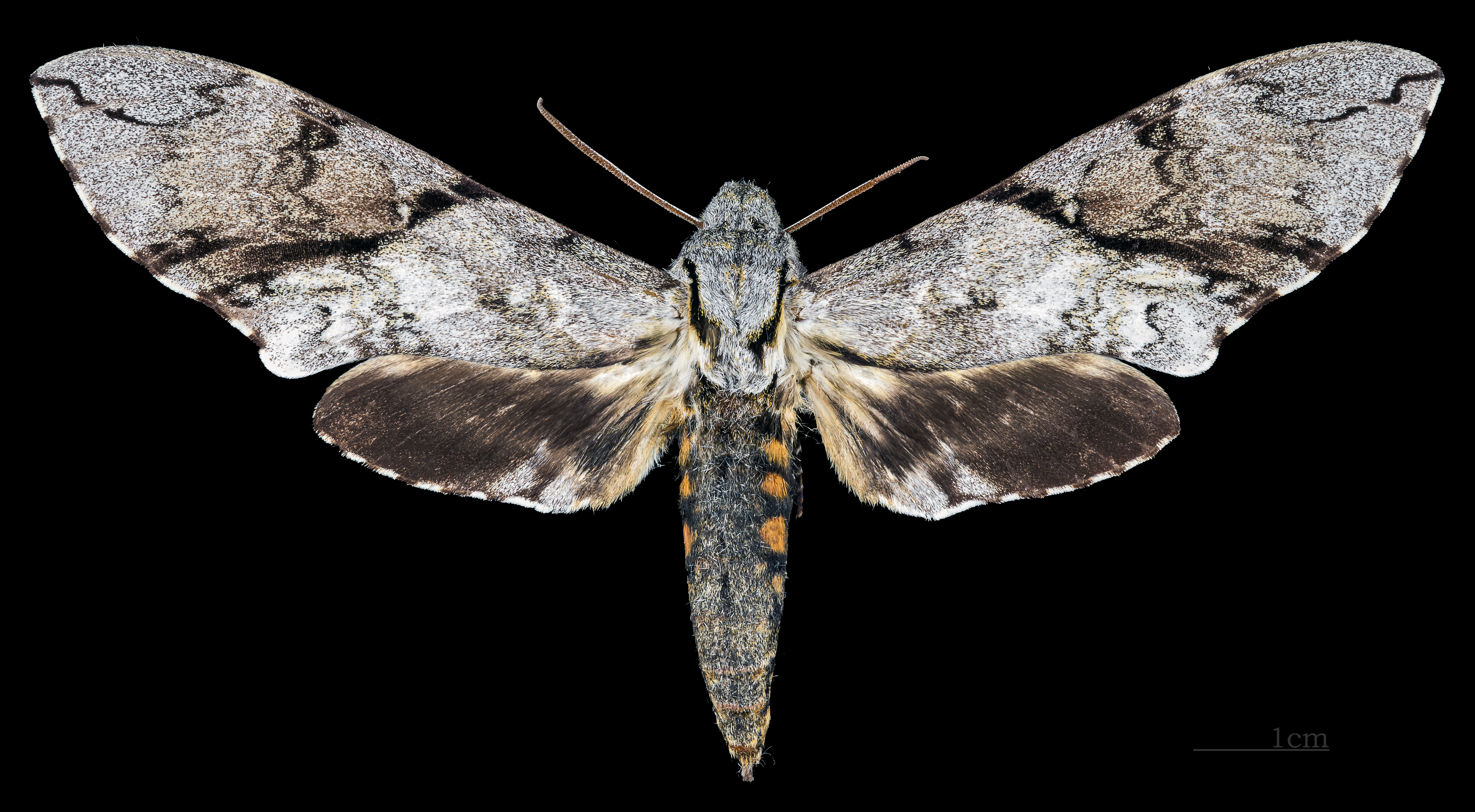 Manduca incisa - Dorsal side Collection of the Mathematician Laurent Schwartz